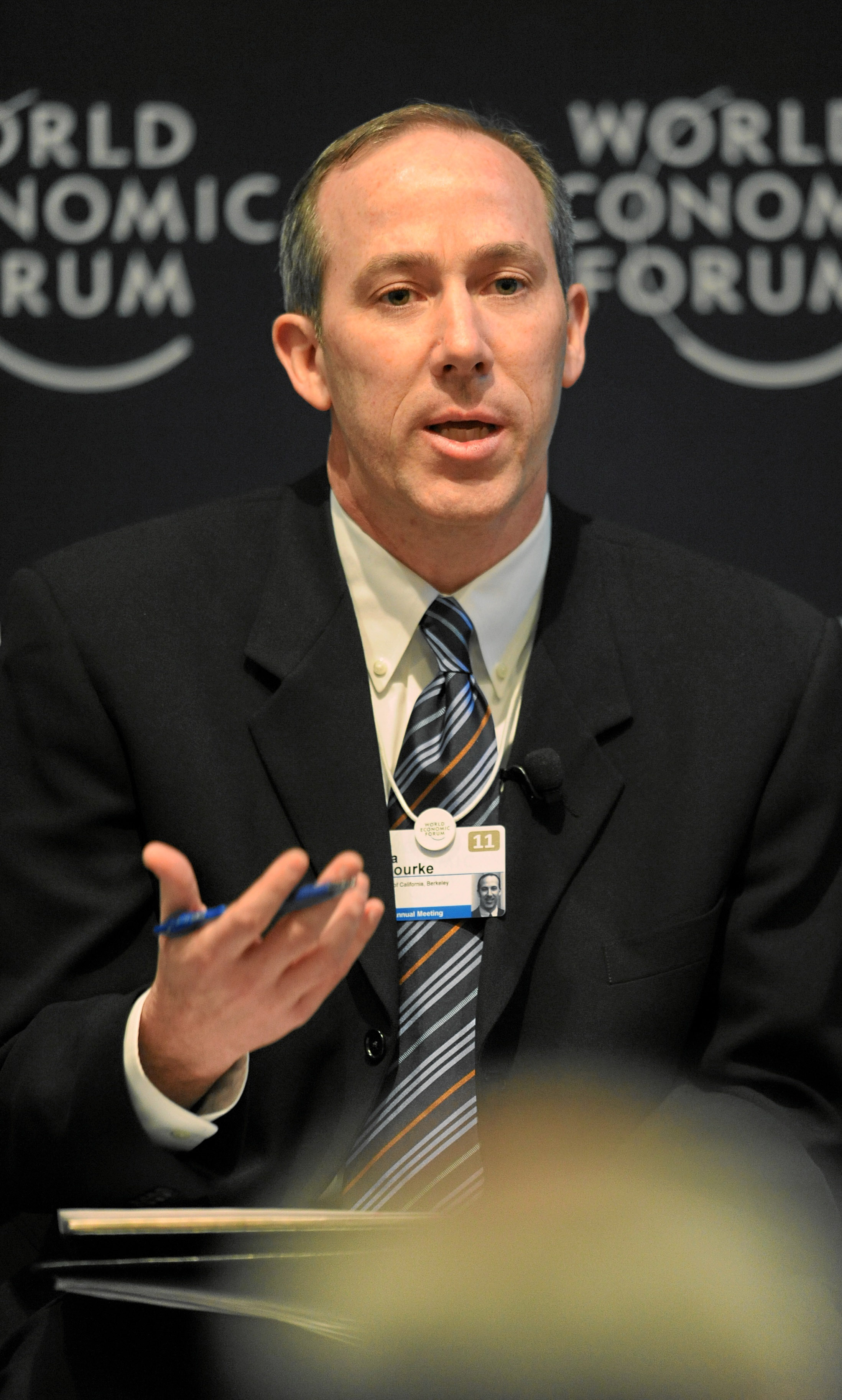 DAVOS/SWITZERLAND, 27JAN11 - Moderator Dara O'Rourke, Associate Professor, Department of Environmental Science, Policy and Management, University of California, Berkeley, USA, speaks during the session 'The New Reality of Consumer Power' at the Annual Meeting 2011 of the World Economic Forum in Davos, Switzerland, January 27, 2011. Copyright by World Economic Forum by Michael Wuertenberg